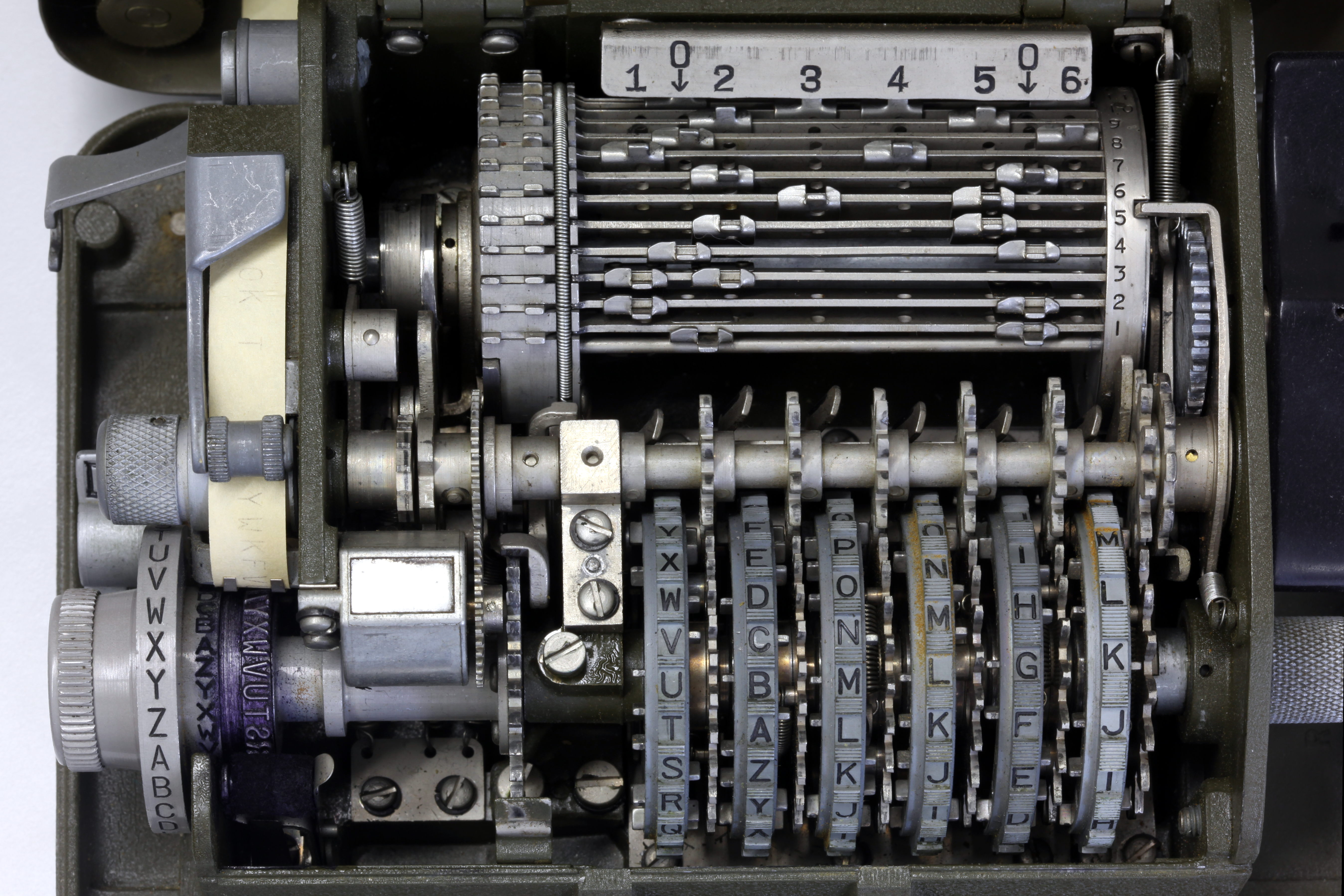 M-209B. Cryptography collection of the Swiss Army headquarters The making of this document was supported by Wikimedia CH. (Submit your project!) For all the files concerned, please see the category Supported by Wikimedia CH.